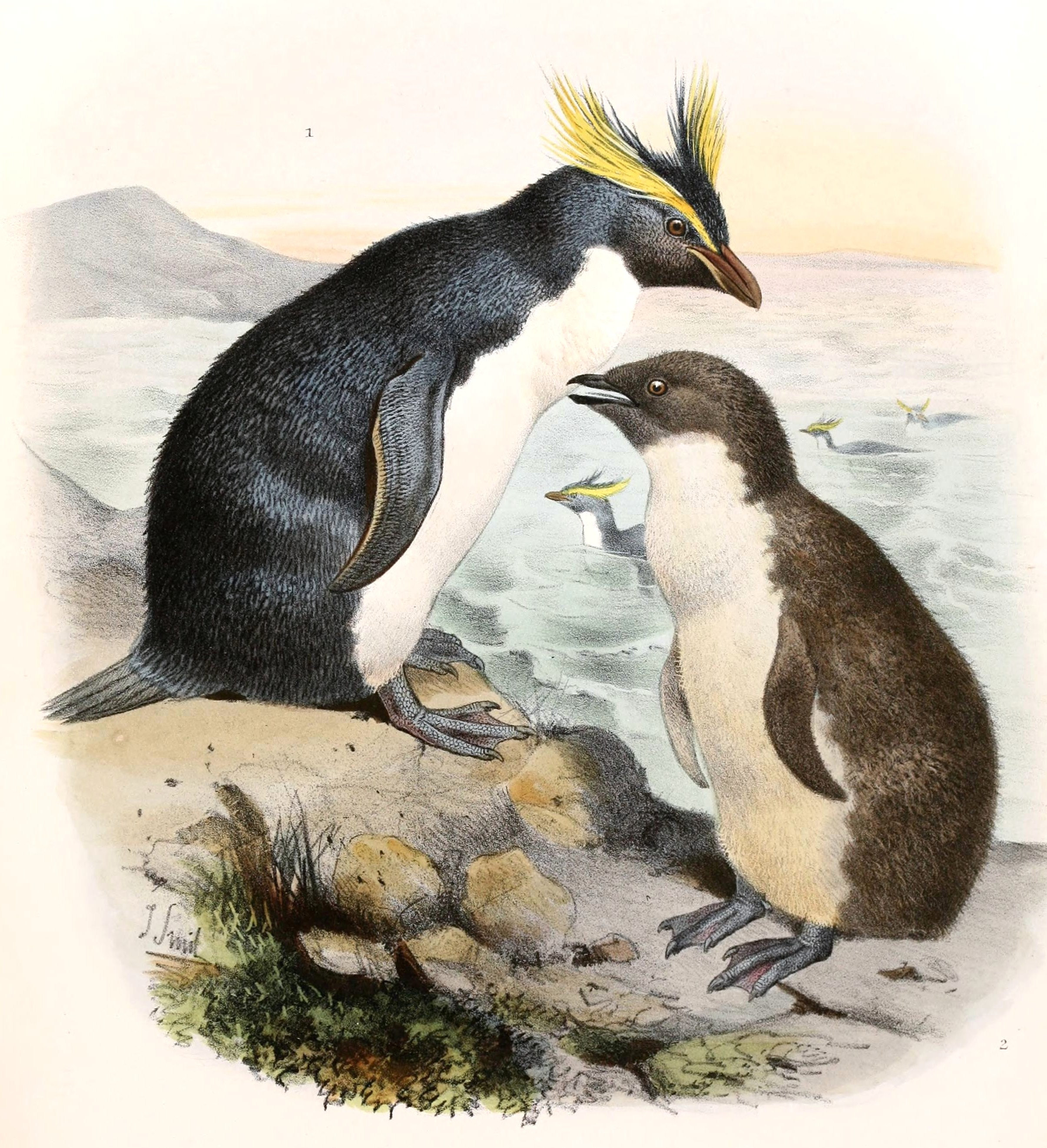 « Eudyptes chrysocome » = Eudyptes chrysocome (Southern Rockhopper Penguin)